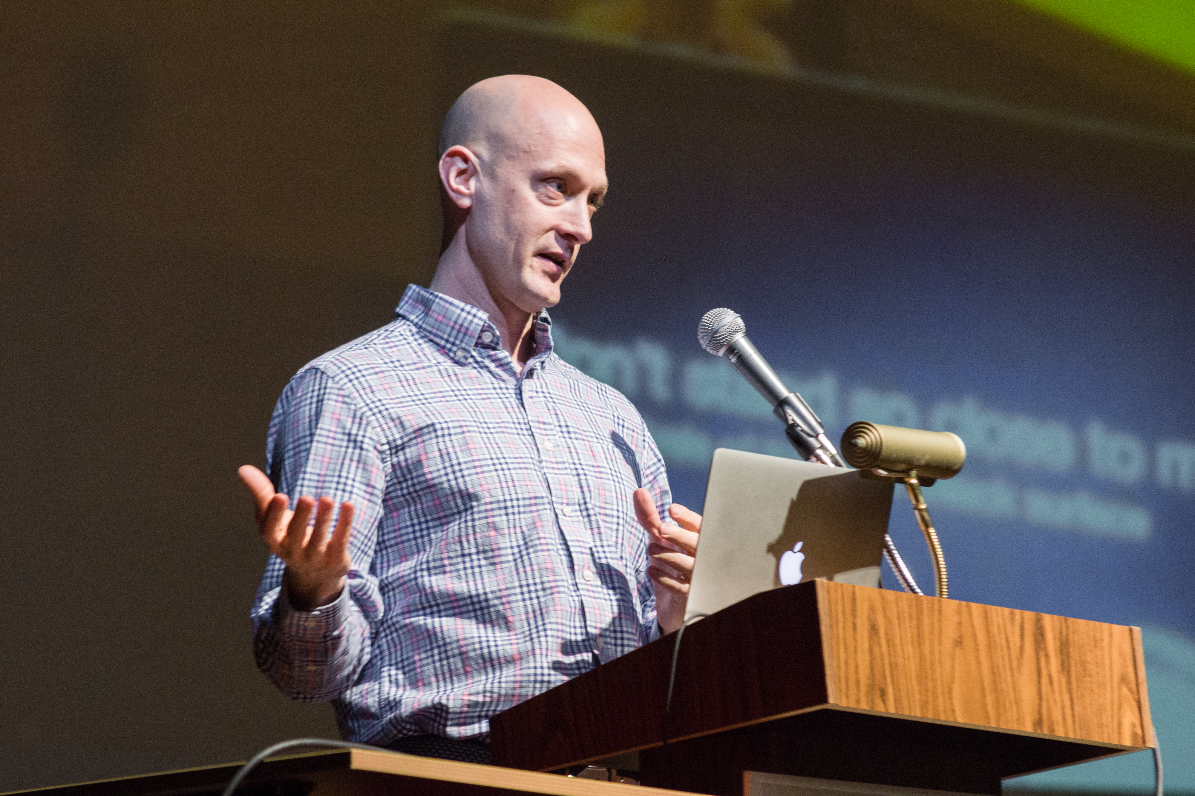 Picture of Charlie Miler speaking at Truman State University